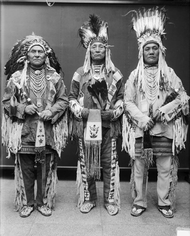 Three Blackfoot chiefs (From left to right) Wolf Plume, Curly Bear, and Bird Rattler in full traditional clothing.